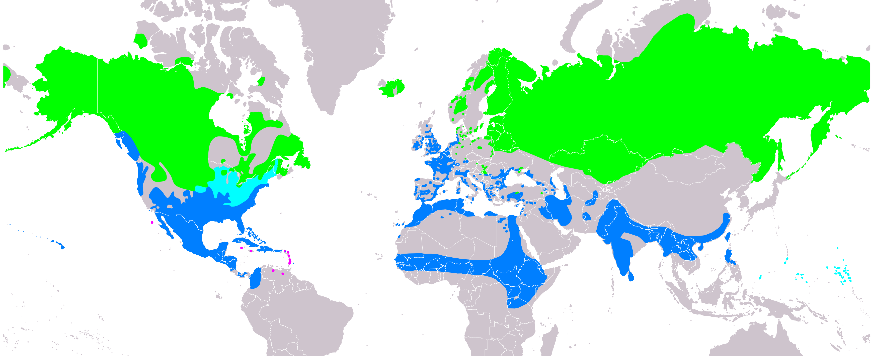 Distribution map of northern pintail (Anas acuta) according to IUCN version 2019-2 ; key: Legend: Extant, breeding (#00FF00), Extant, passage (#00FFFF), Extant, non-breeding (#007FFF), Extant & Vagrant (seasonality uncertain) (#FF00FF)